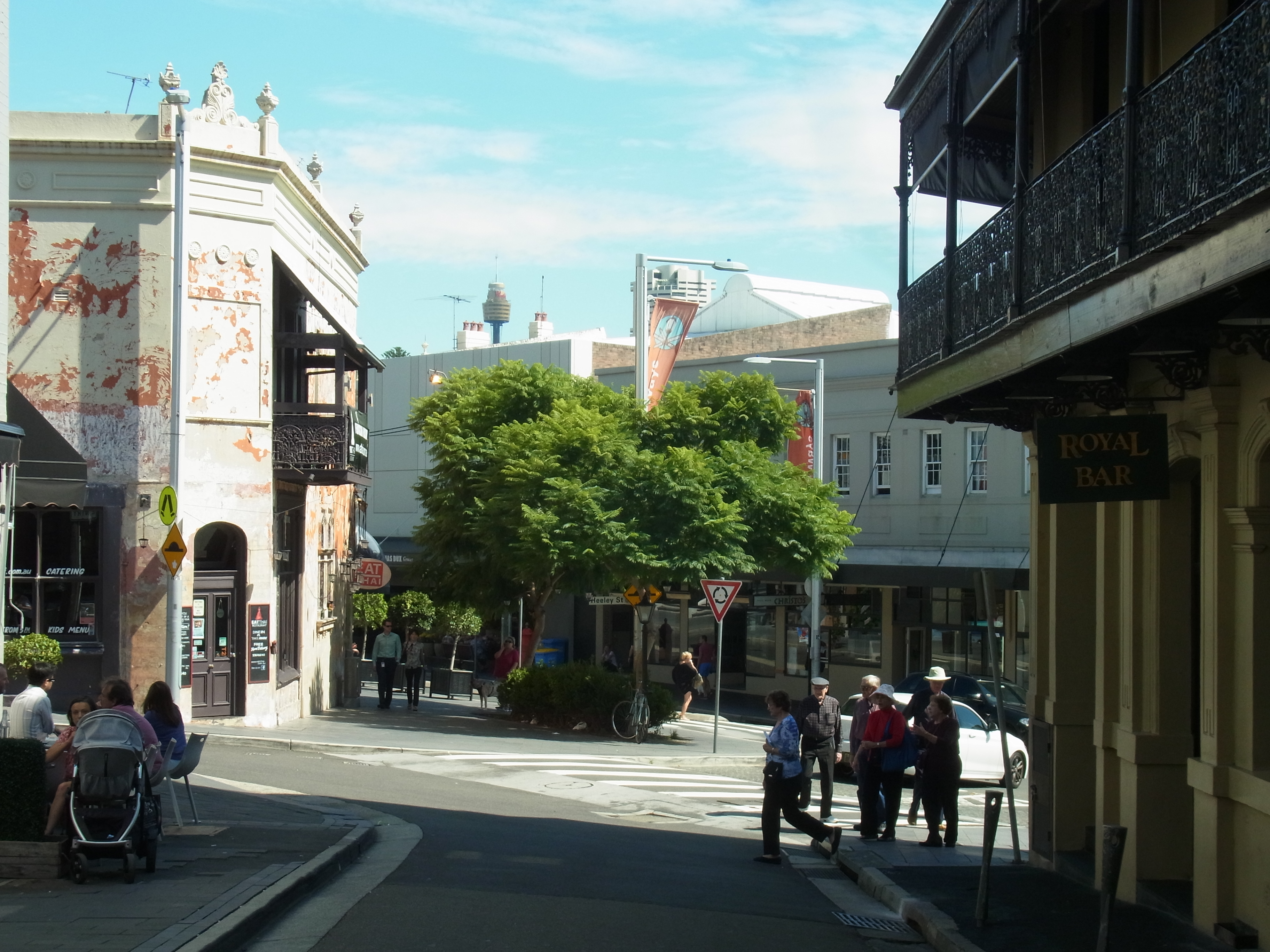 Five Ways, Paddington, New South Wales